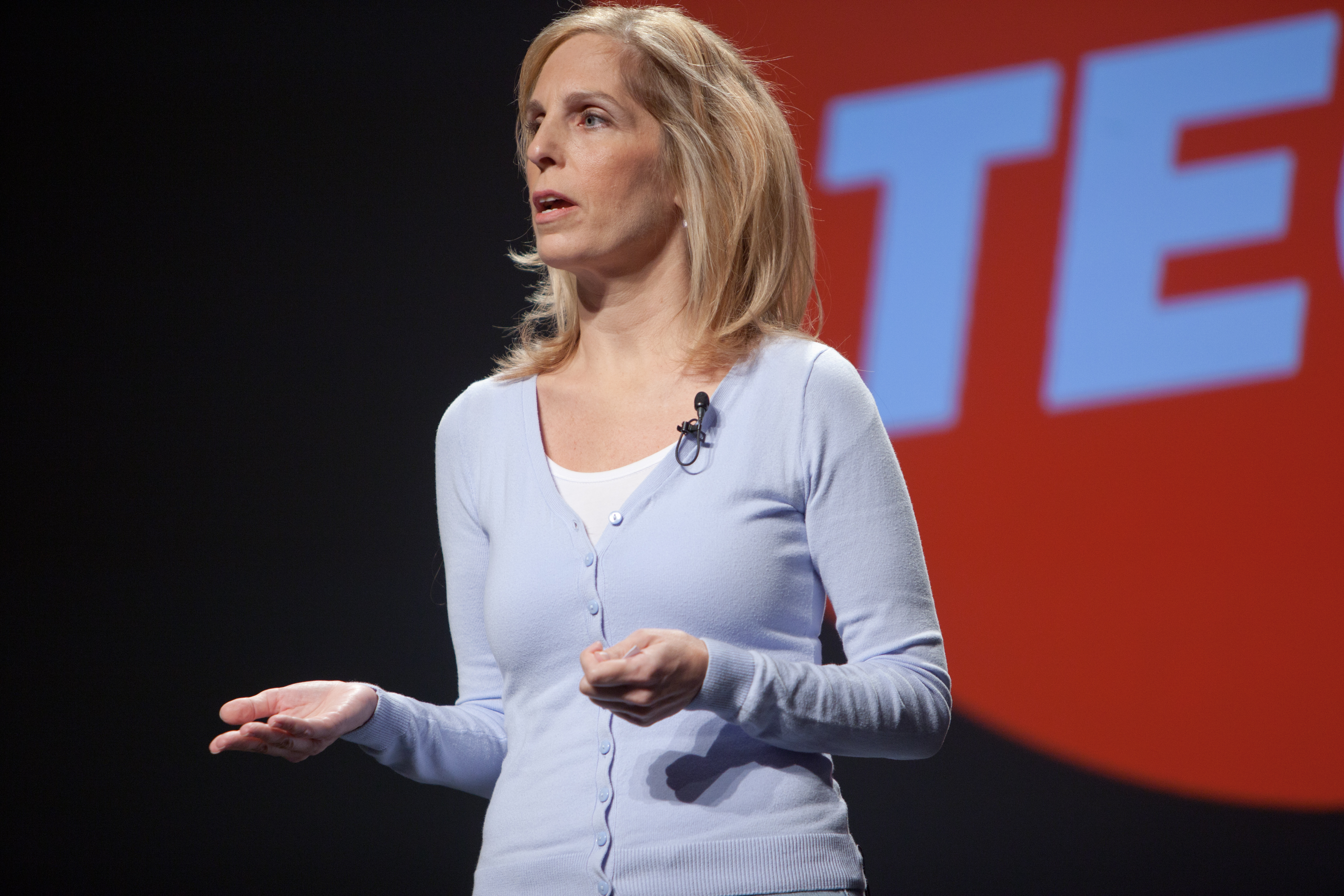 Deborah Kenny - PopTech 2010 - Camden, Maine